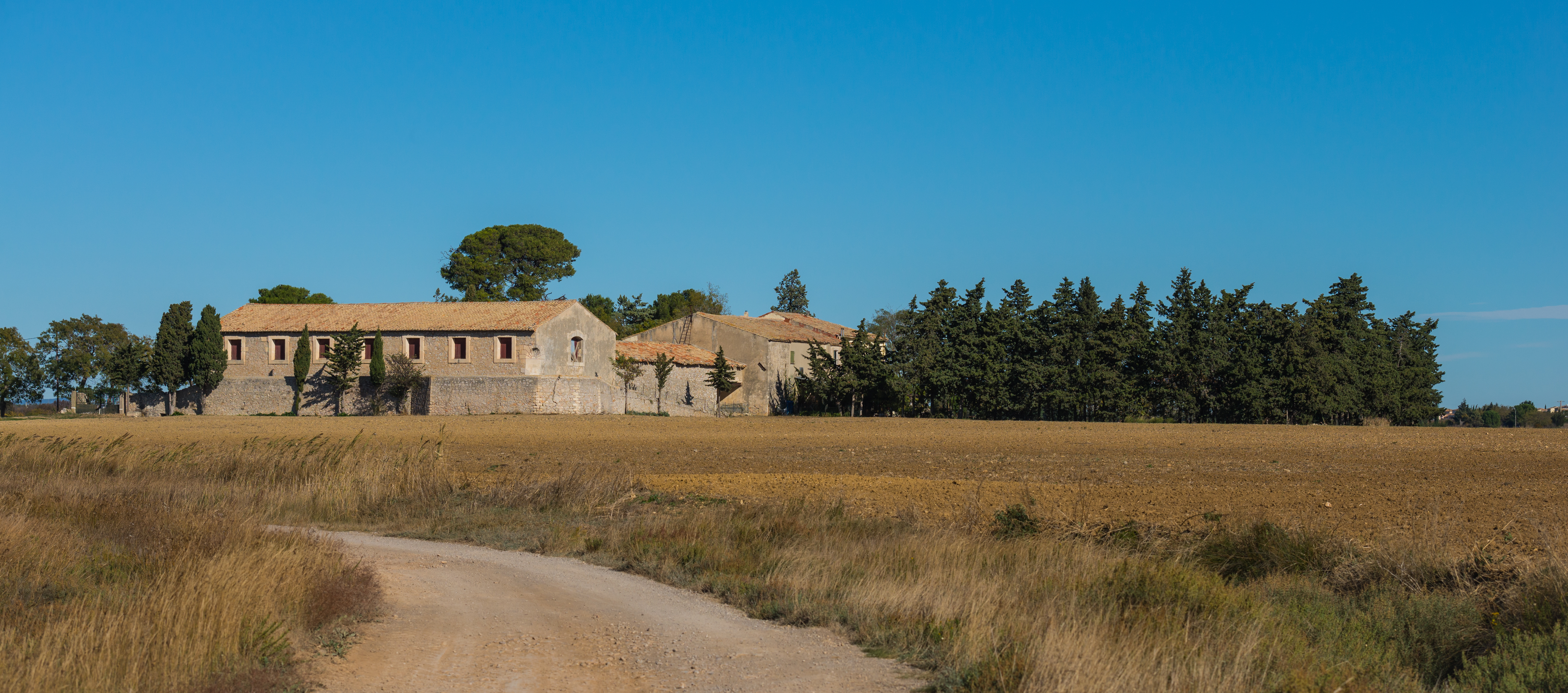 The "Mas des Quinze". Villeneuve-lès-Maguelone, Hérault, France.